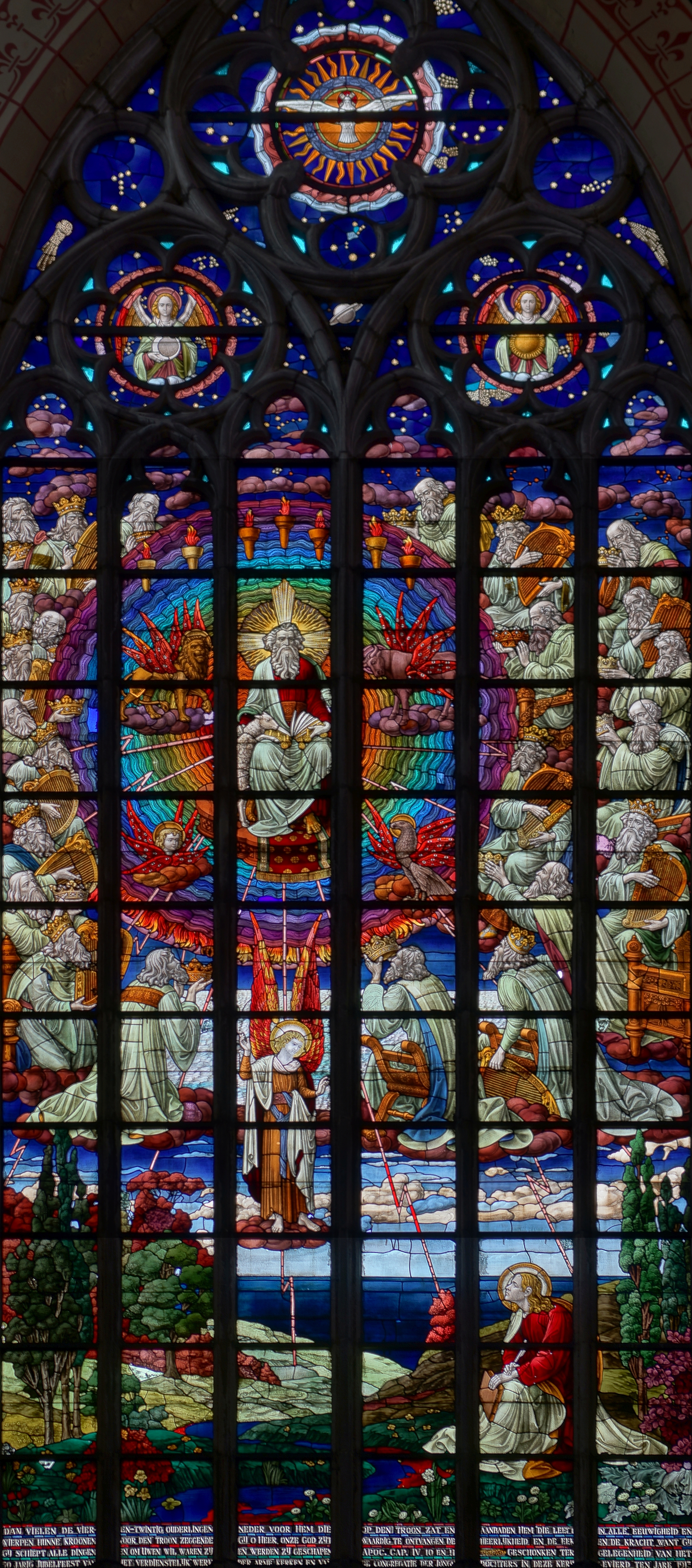 St. Vincent's Church (Eeklo) - Stained glass window "The vision of Saint John on the island of Patmos", created by Gustave Ladon in 1911